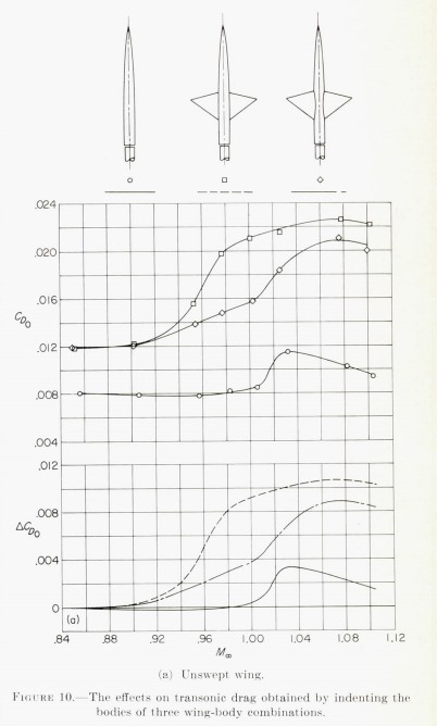 This is a chart, created at the NASA Langley 8- foot wind tunnel in the 1950~